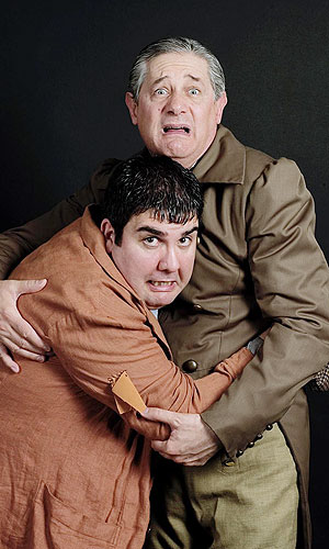 Spanish comedians Josema Yuste and Florentino Fernández.